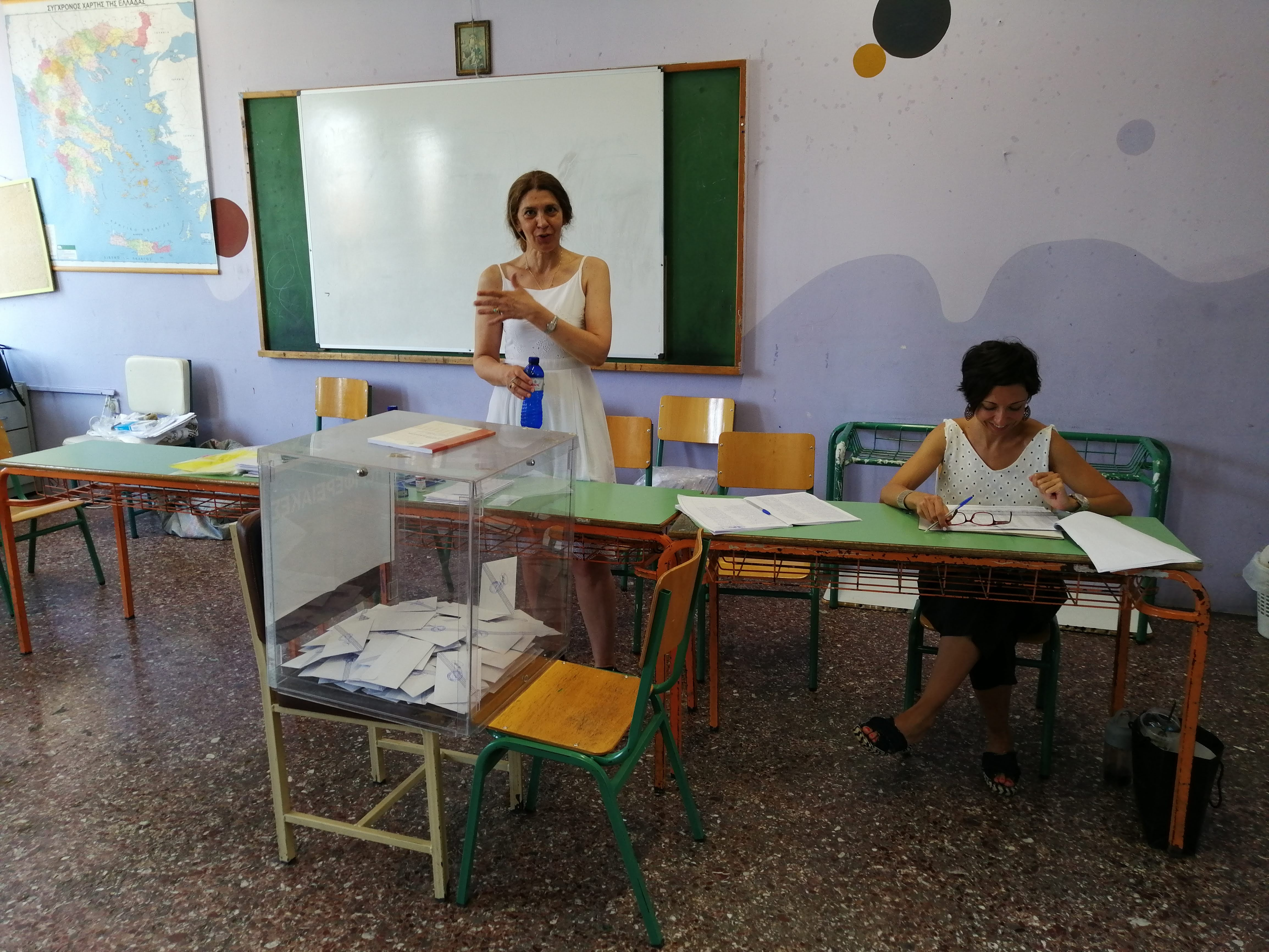 Judicial representatives and electoral committee in the Greek parliamentary elections of 2019. The photo was taken after the people shown were informed about the uploading of the image here and gave explicit permission to be photographed.